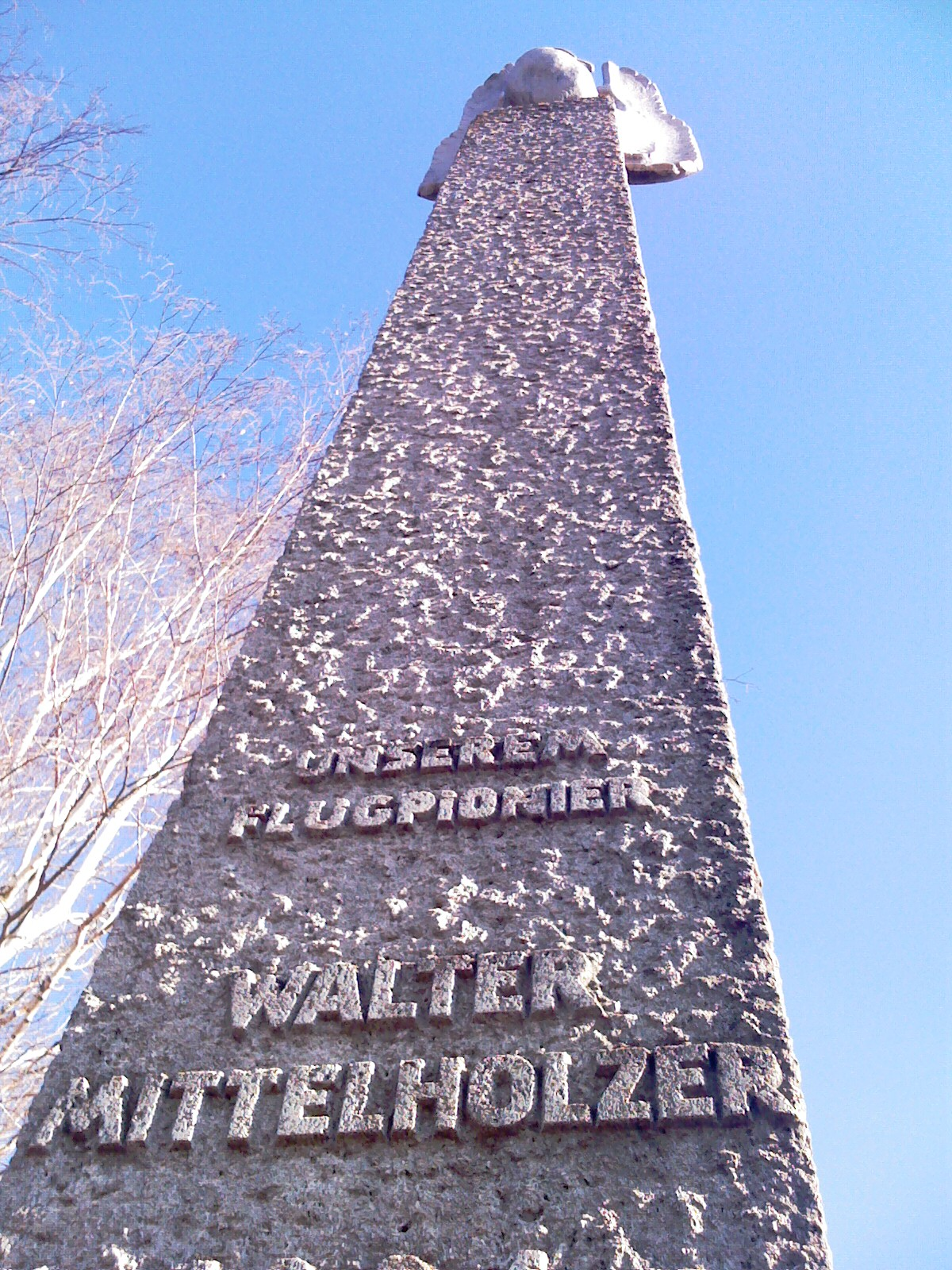 Walter Mittelholzer Memorial at Kloten-Zurich, Switzerland